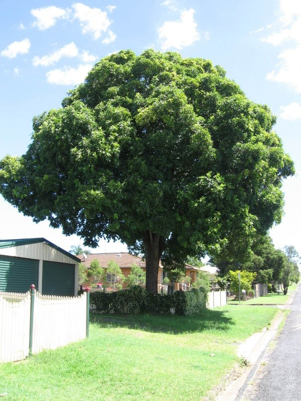 Photo of F. australis, taken by myself. Originally posted to [1] for the English Wikipedia.